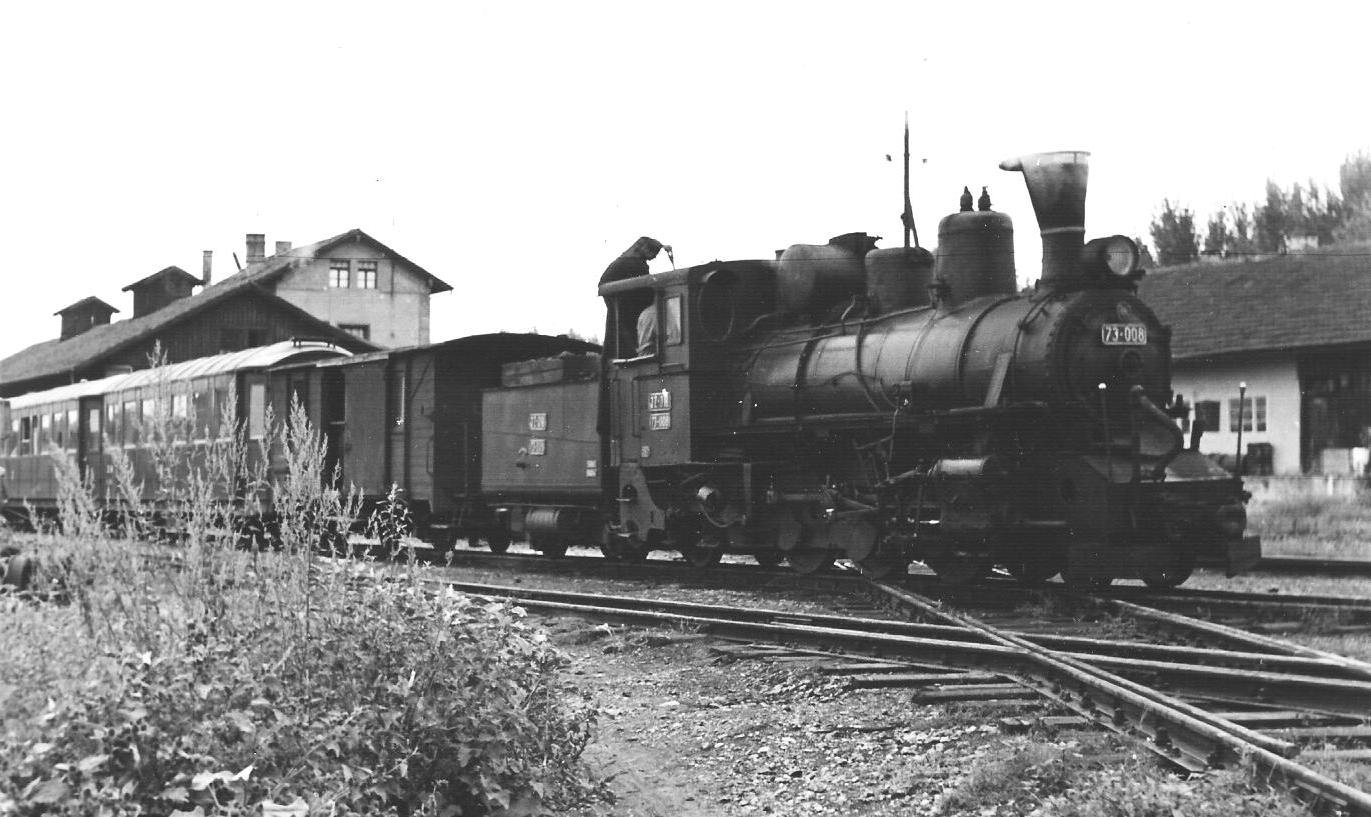 Narrow gauge express train locomotive 73-008 in Prijedor, Bosnia and Herzegovina